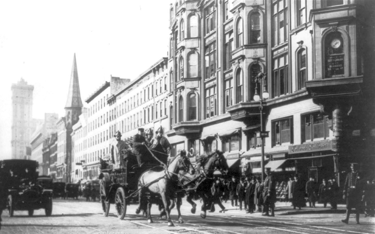 Horse-drawn fire engines in street, on their way to the Triangle Shirtwaist Company fire, New York City